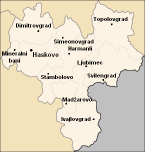 Croatian names on map of Haskovo District (Bulgaria)